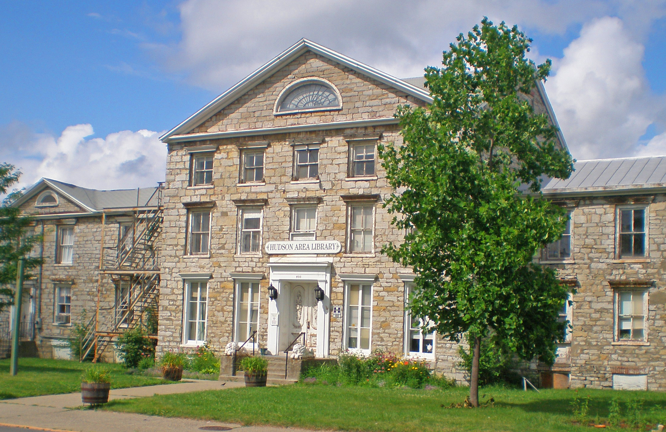 Hudson, NY, USA, library building. 1816 stone building is a contributing property to the Hudson Historic District